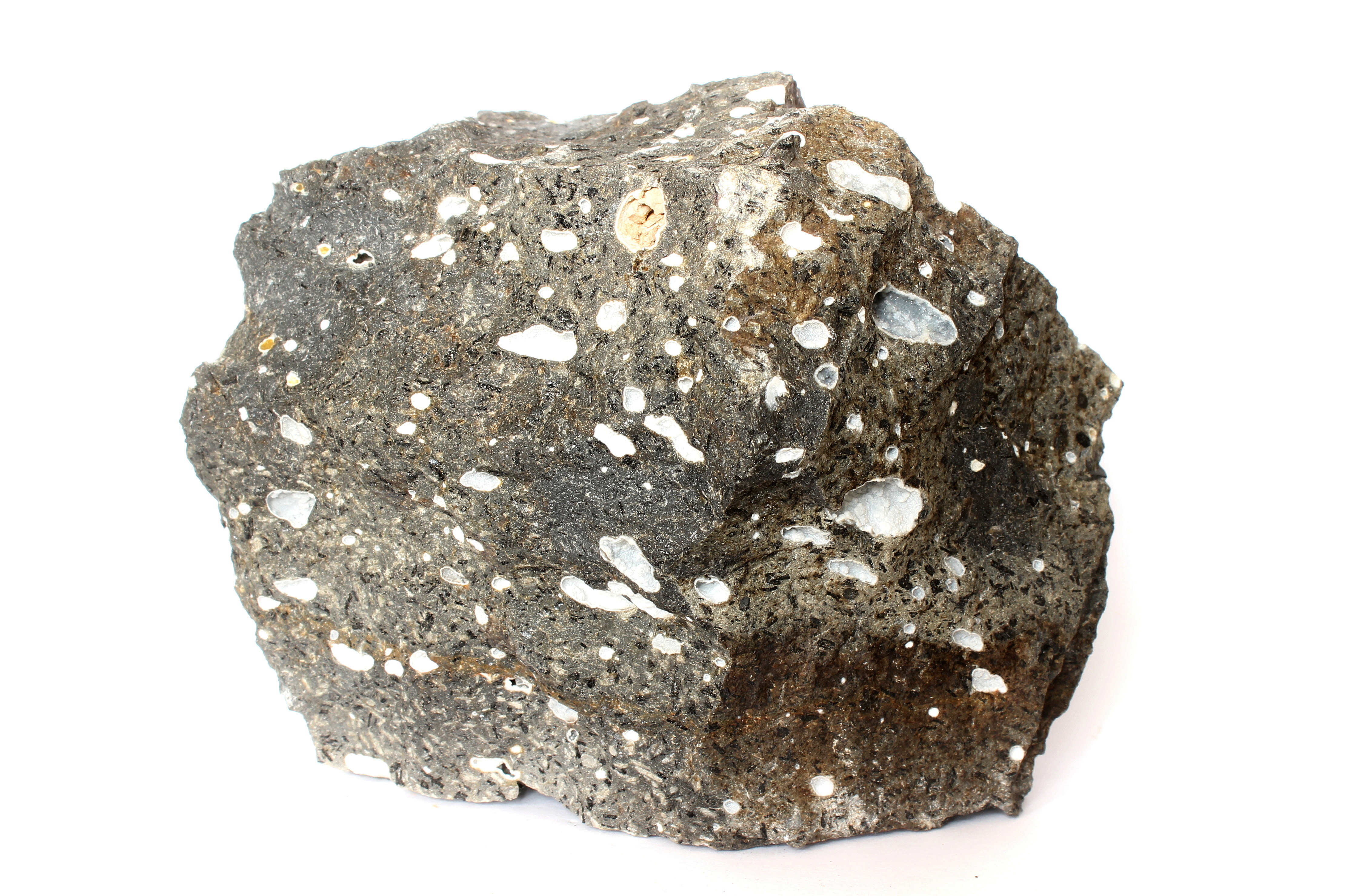 Dark groundmass is basalt with amygdaloidal structure, vesicules are filled with zeolite - thomsonite. Lokality: Pustý vrch u Folknářů, Czech republic.Rock sample belongs to Geo collection of author.